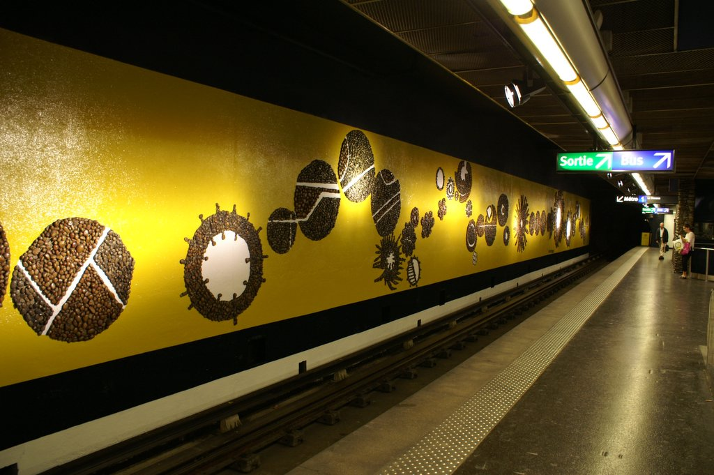 The station "Vieux-Port" of the Métro Marseille